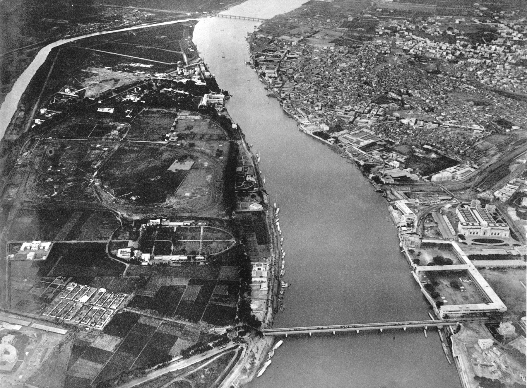 Aerial view of central Cairo, Egypt — in 1904. Photographed from a balloon at about 500 metres (1,600 ft) above the ground — by Eduard Spelterini (1852 - 1931). Left of the Nile is Gezira island with the botanical gardens and race track; the Category:Qasr al-Nil Bridge crosses the river; and on the right bank are the British barracks (present day Tahrir Square area), and the Egyptian Museum.